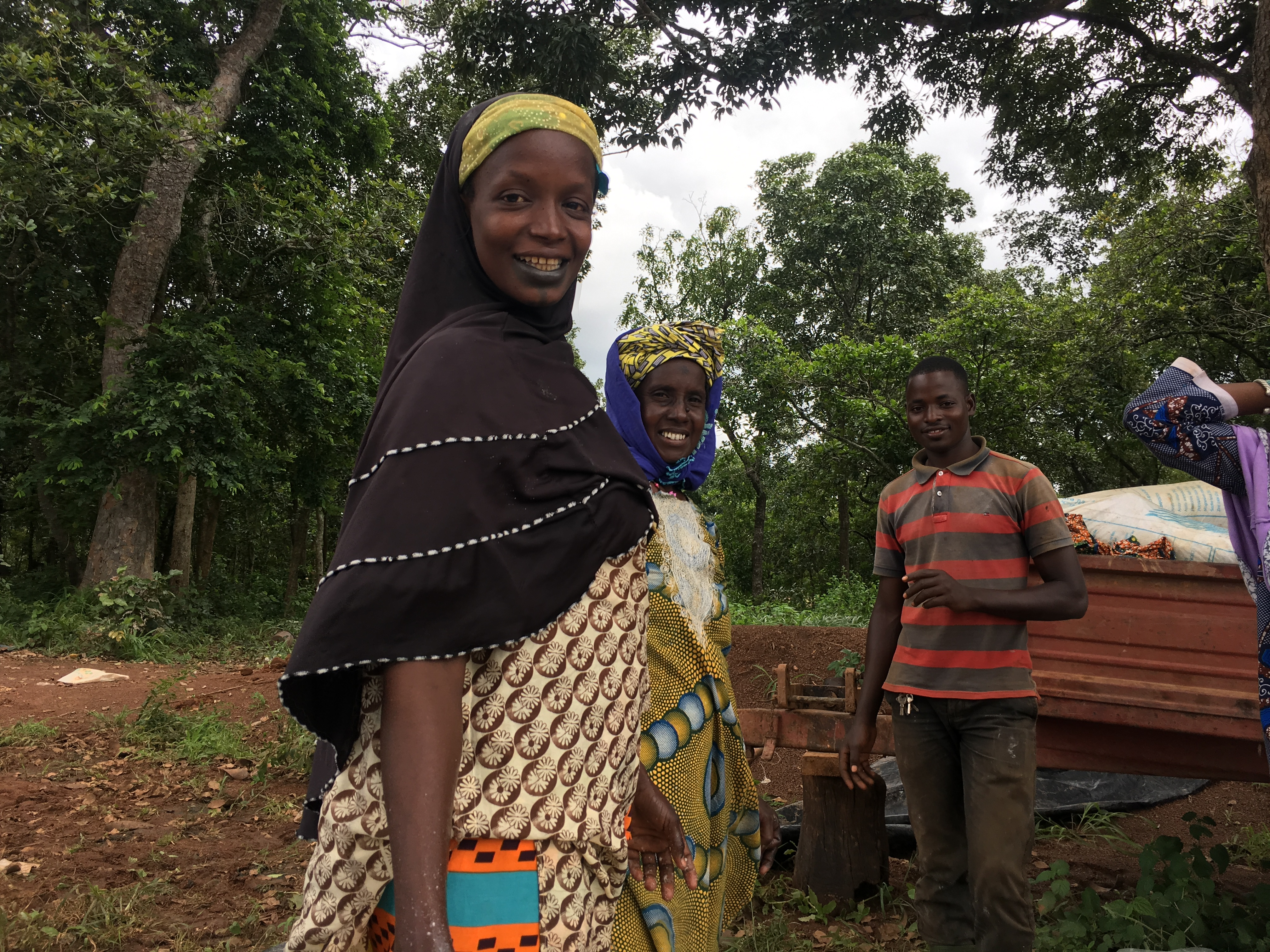 This is an image of "African people at work" from Ivory Coast